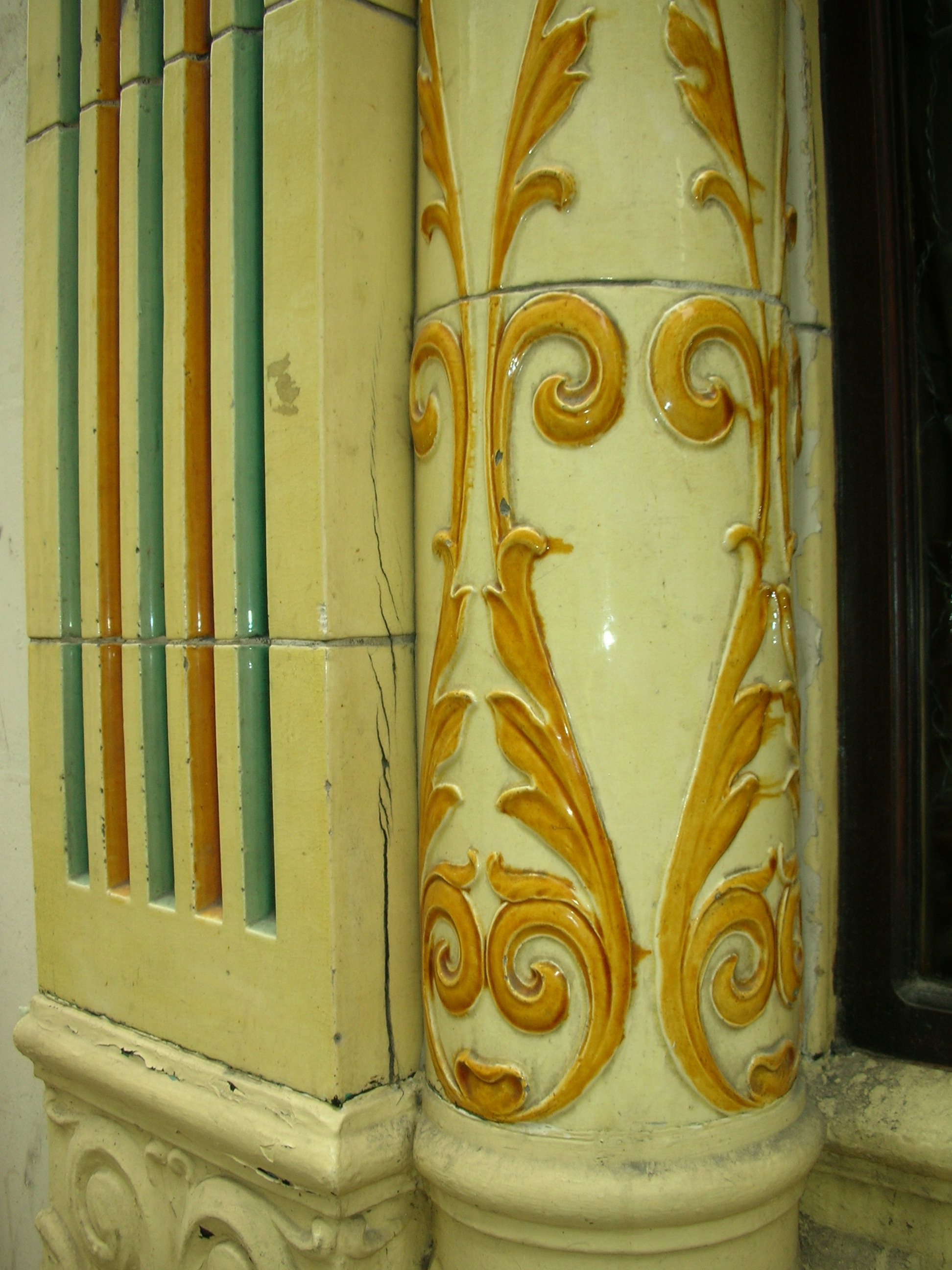 Detail from the Trocadero pub, Temple Street, Birmingham, England. A colourful example of glazed tile and terracotta. Photographed by me.